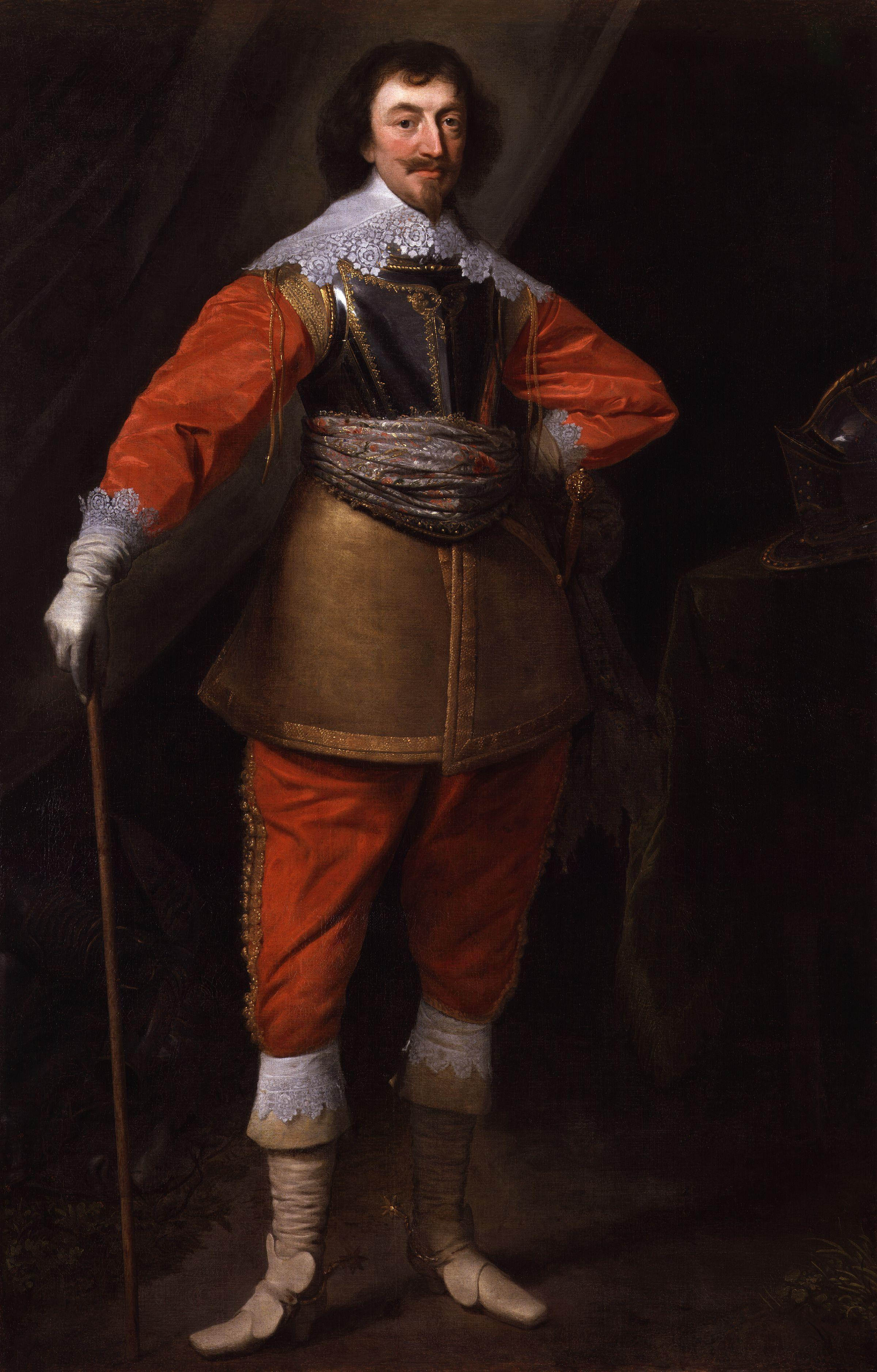 Robert Rich, 2nd Earl of Warwick, by Daniel Mytens (died 1647). All images in this batch have been confirmed as author died before 1939 according to the official death date listed by the NPG.